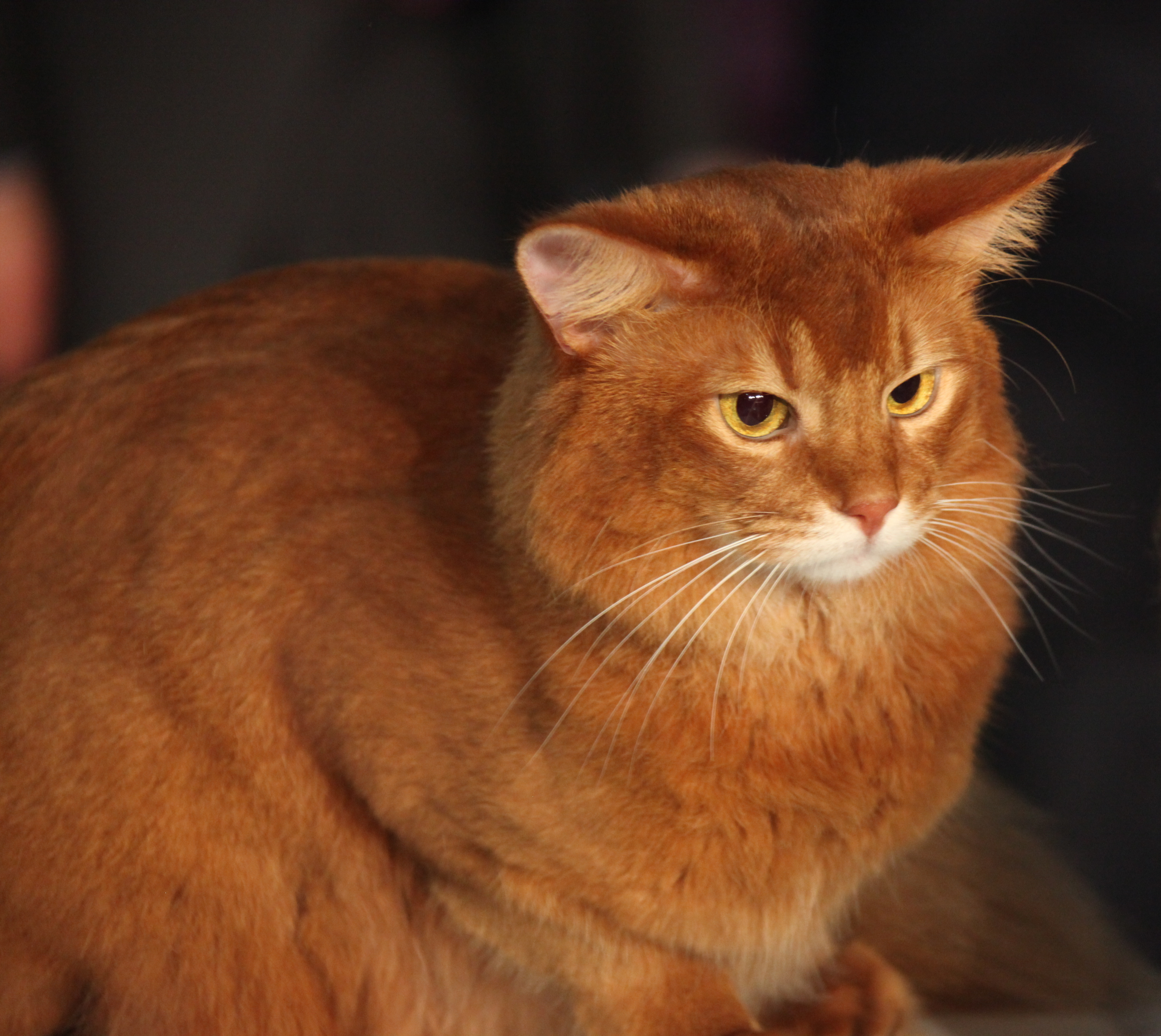 A somali cat in Fifé Worldshow 2009